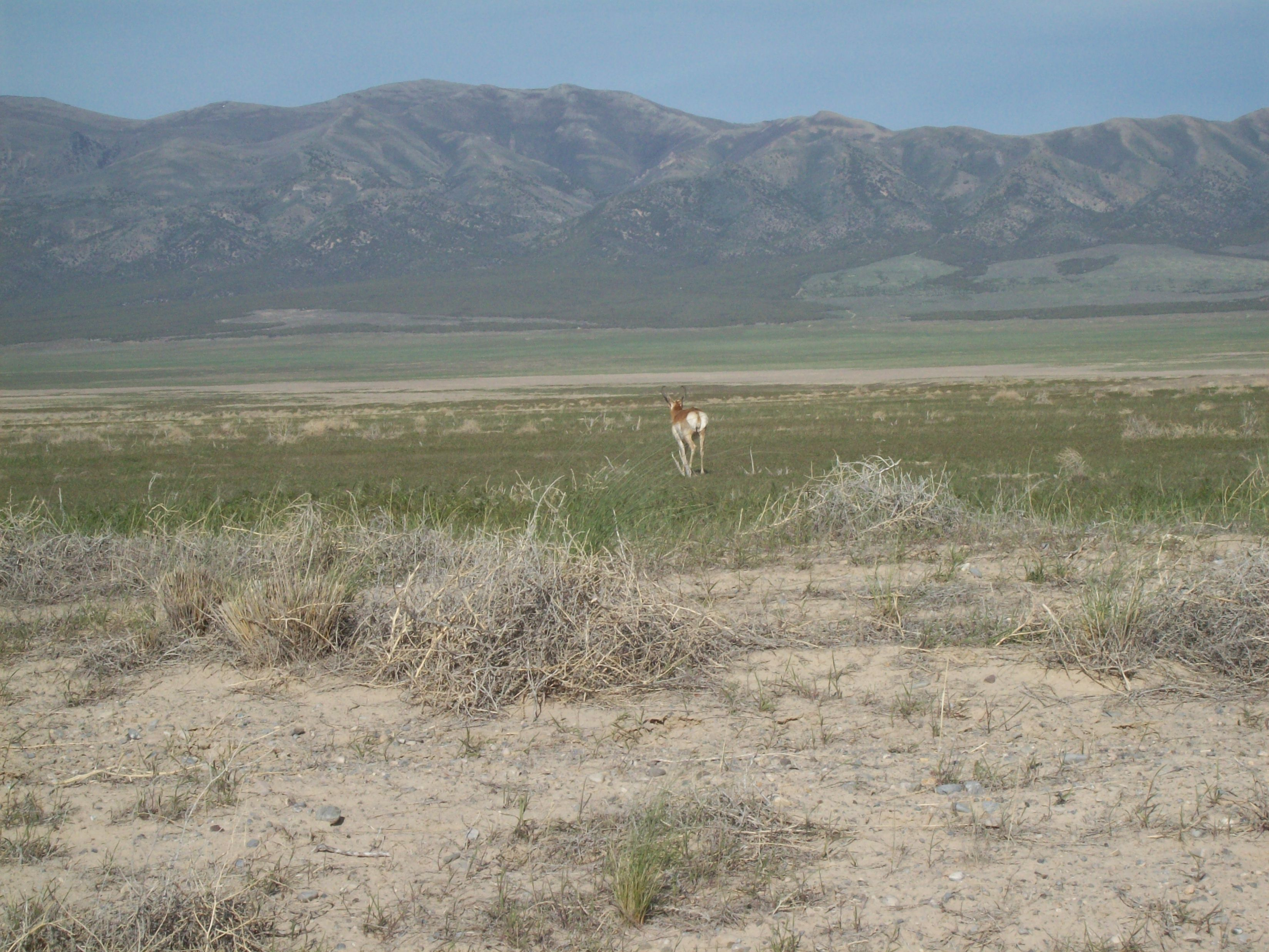 Looking southeast from Utah State Route 199 across the southeast end of Skull Valley toward the Onaqui Mountains, May 2009